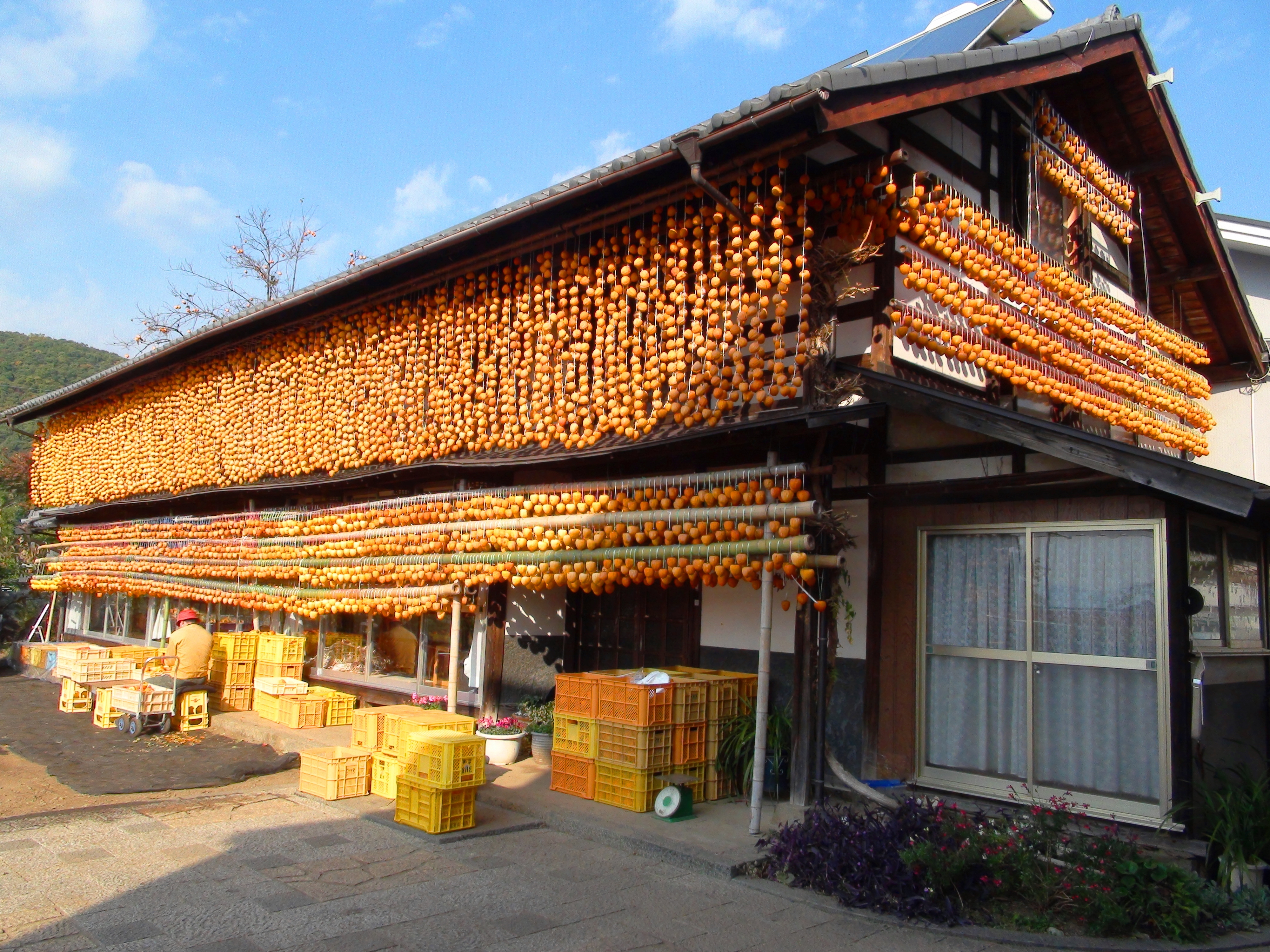 The farming house hung a dry persimmon in Koshu-city Japan